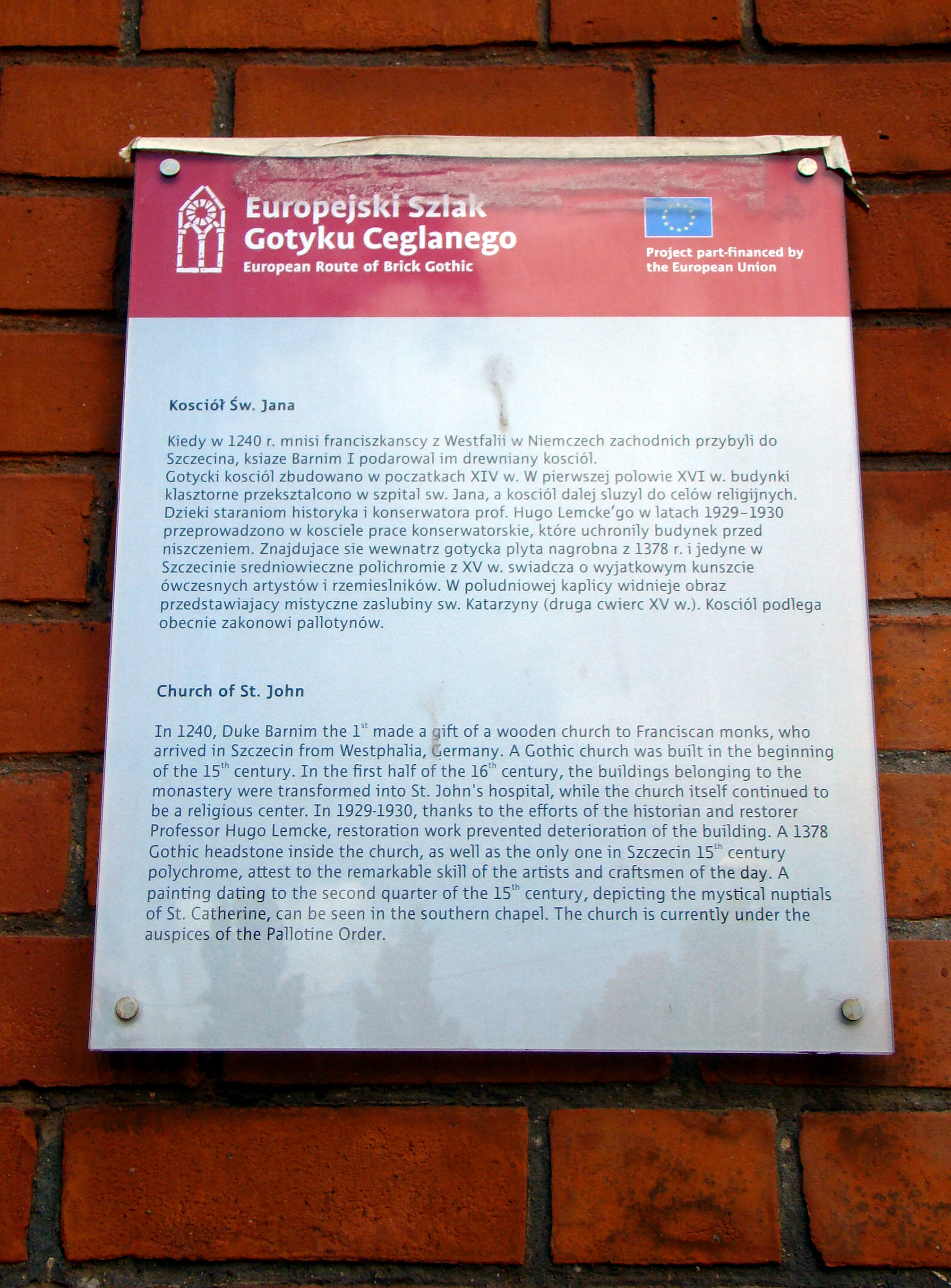 St. John the Evangelist Church, Szczecin, Poland